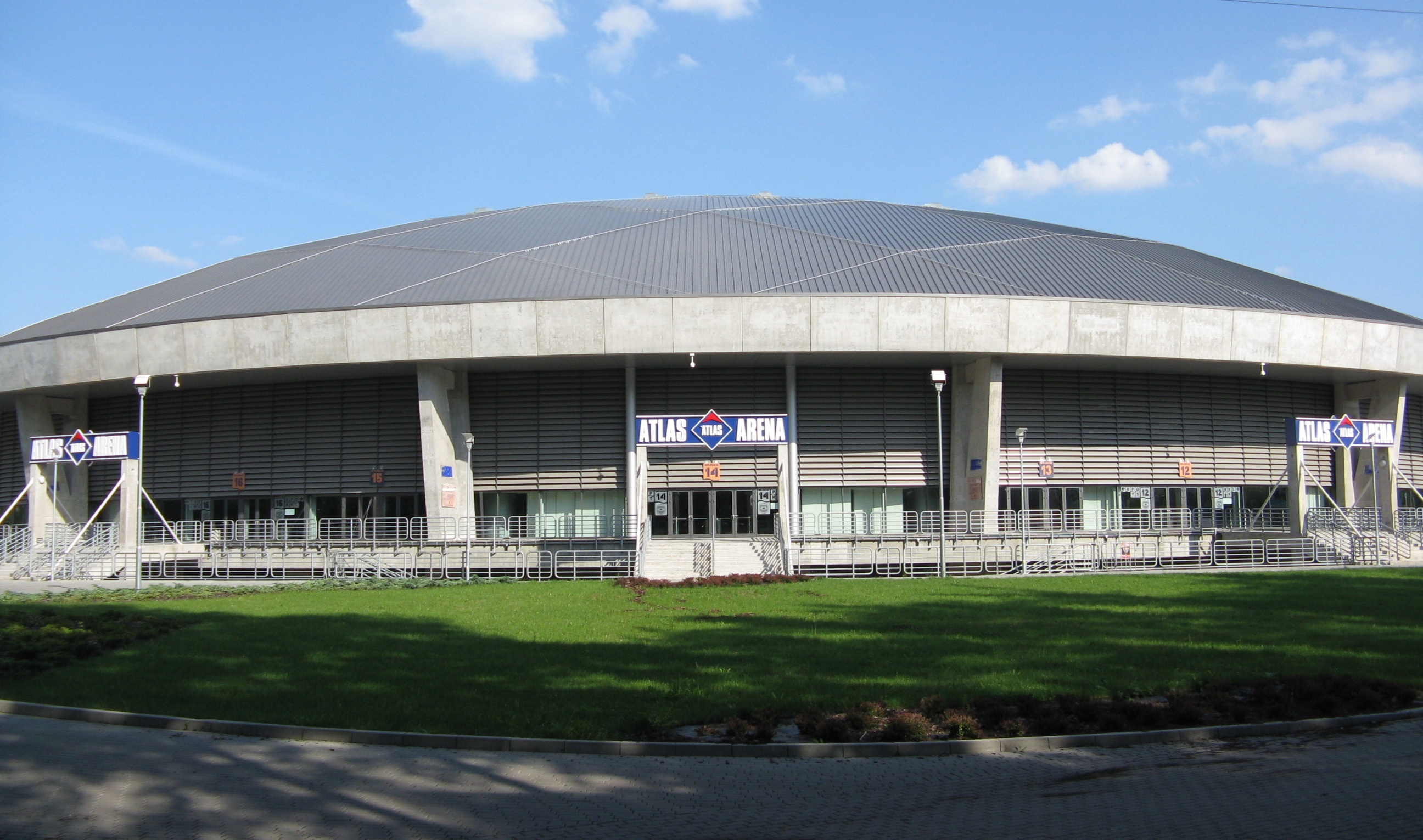 Atlas Arena - indoor arena in Łódź, Poland